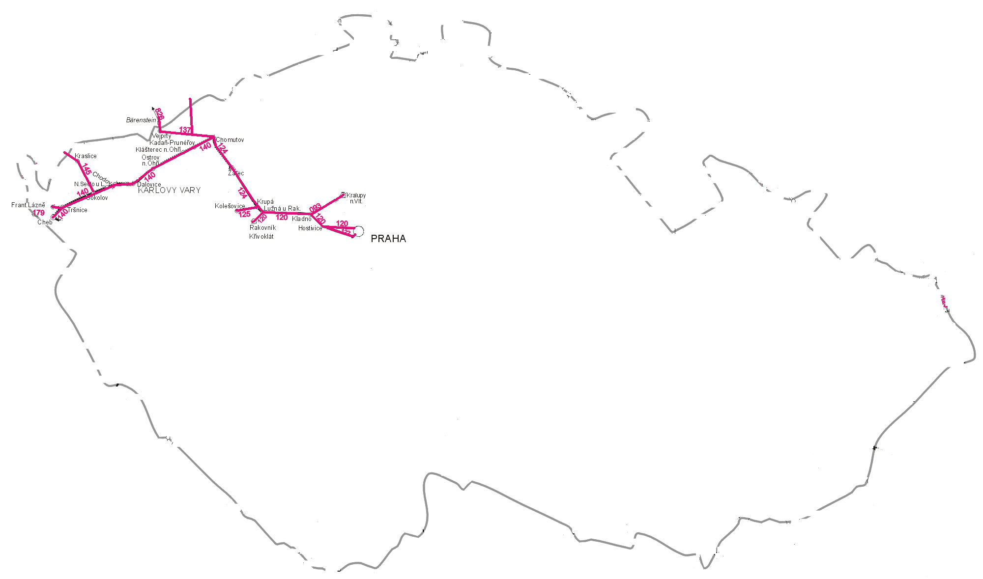 network of rail company BEB (Buschtěhrader Eisenbahn)